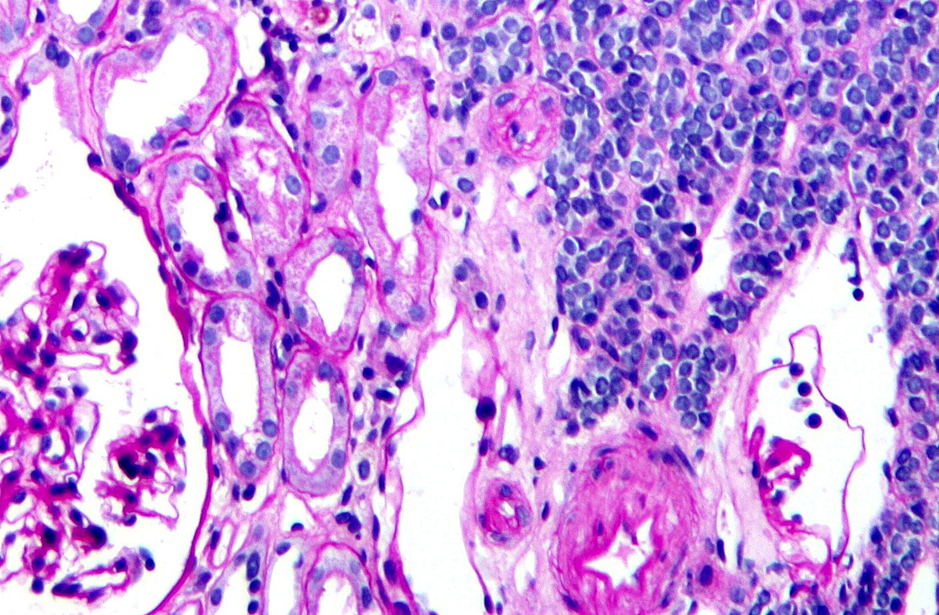 Micrograph of a metanephric adenoma, a rare benign tumour of the kidney. PAS stain. Metanephric adenomas consist of: Small uniform cells, which have a relatively smooth nuclear membrane, fine chromatin, and no apparent nucleolus. Two normal glomeruli can be identified in the non-tumour portion on the left of the image. The most important differential diagnosis is nephroblastoma (Wilms tumour); these typically have frequent mitoses, an irregular nuclear membrane and prominent nucleoli. Related images High mag. High mag. (cropped)